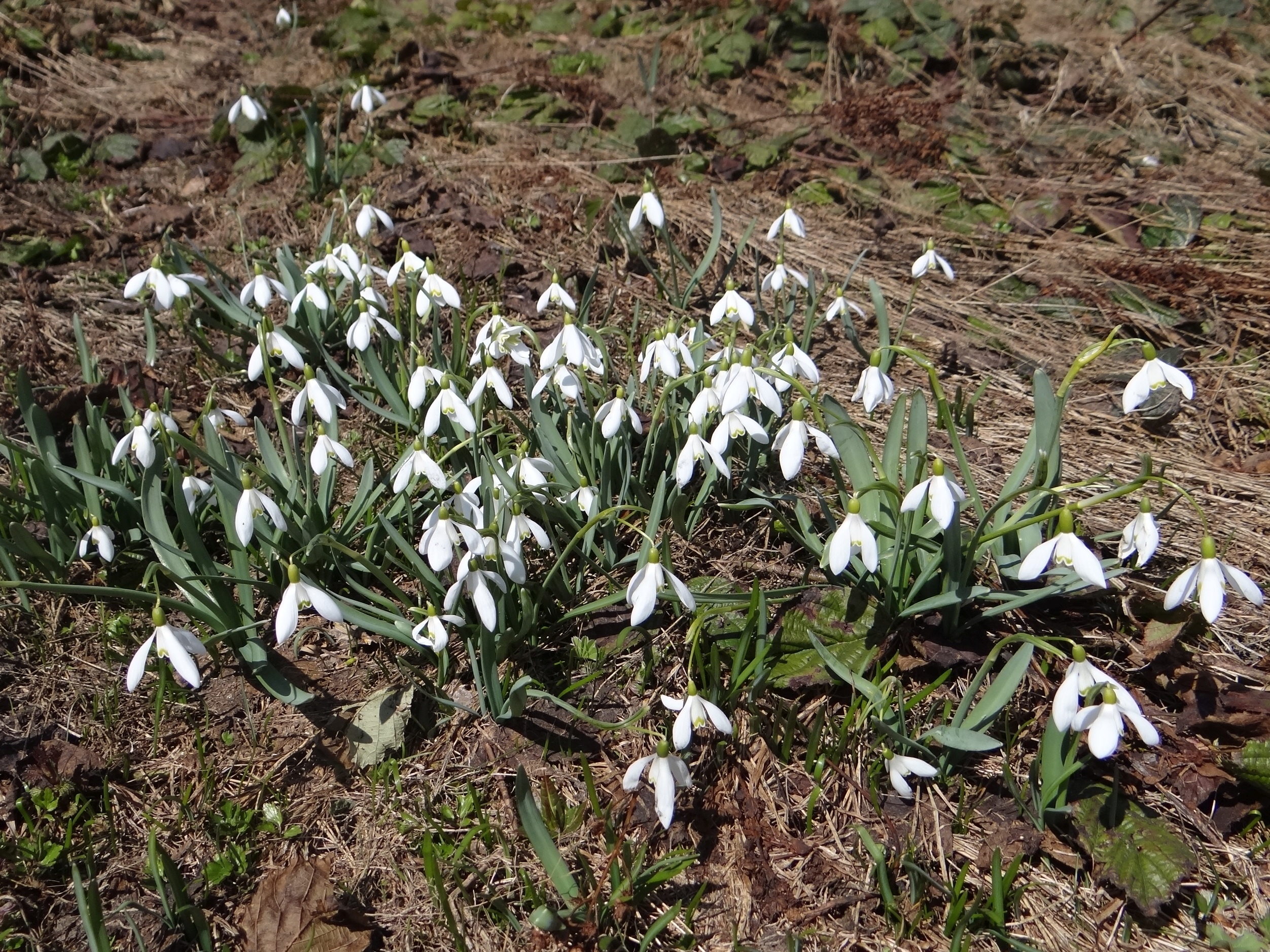 Galanthus nivalis (location: Poland, Beskid Wyspowy, Jasień)